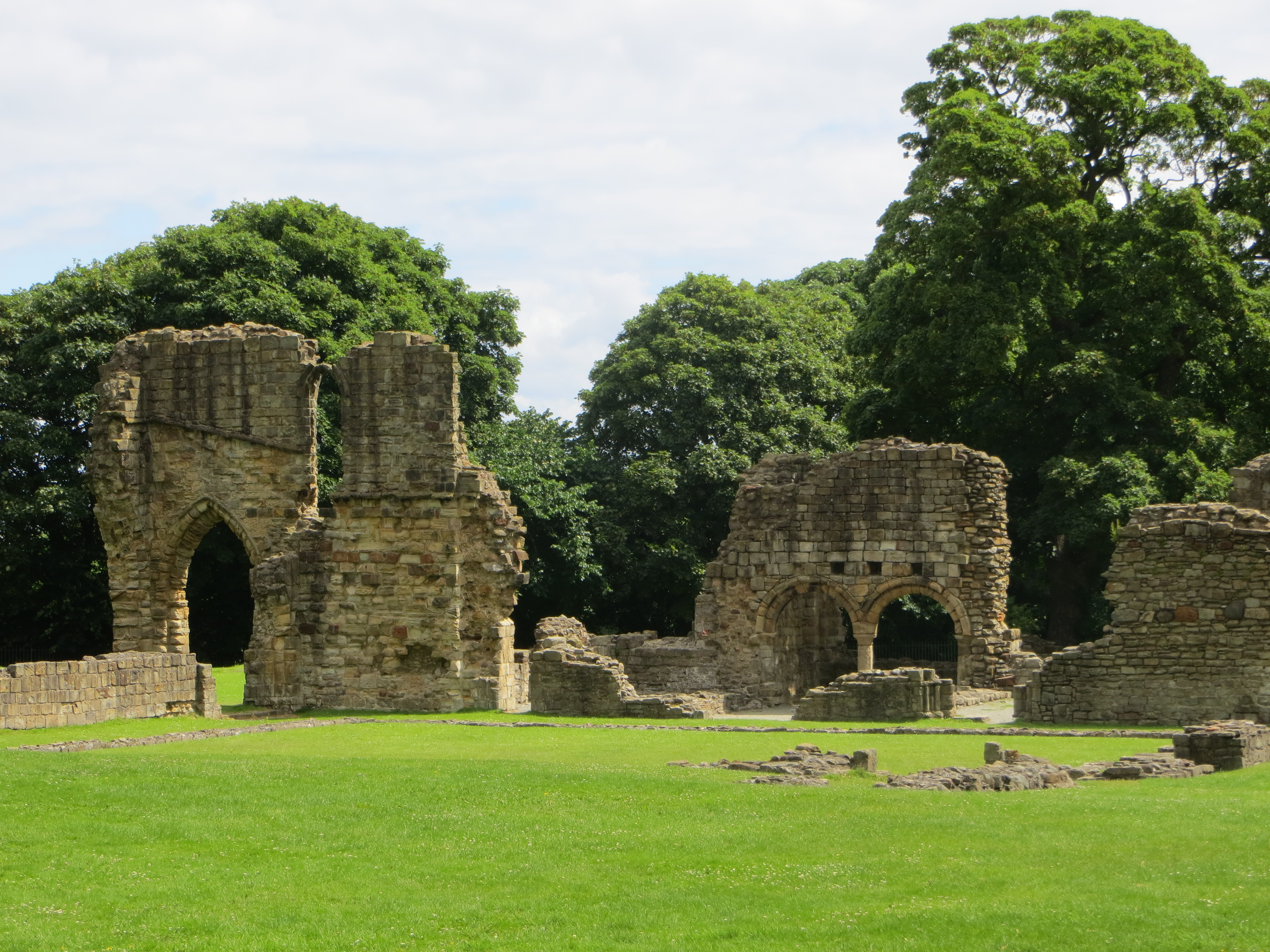 Greenfield Valley Heritage Park